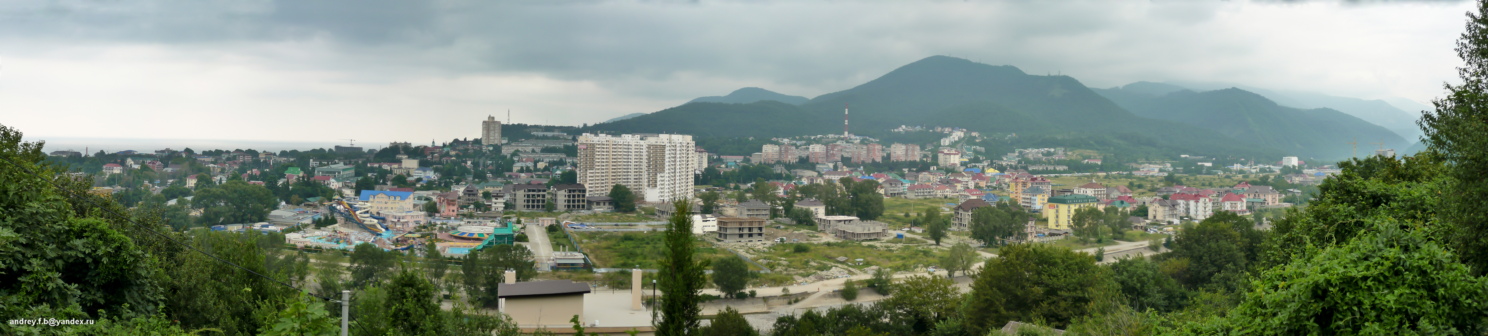 Panorama. City of Sochi, Lazarevskiy area 07/2011